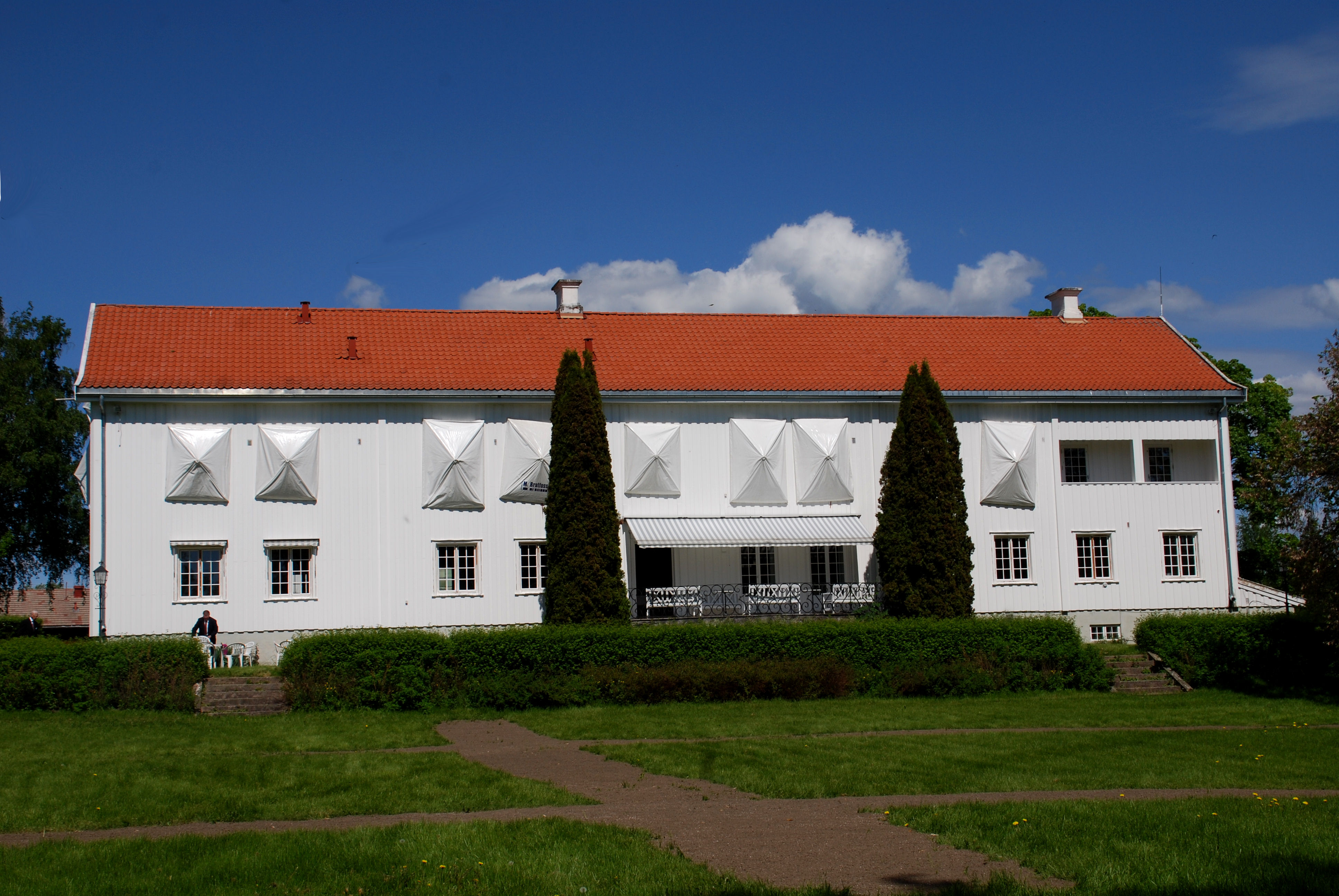 Main building on Åker farm. Built in 1947, after previous building burned down.